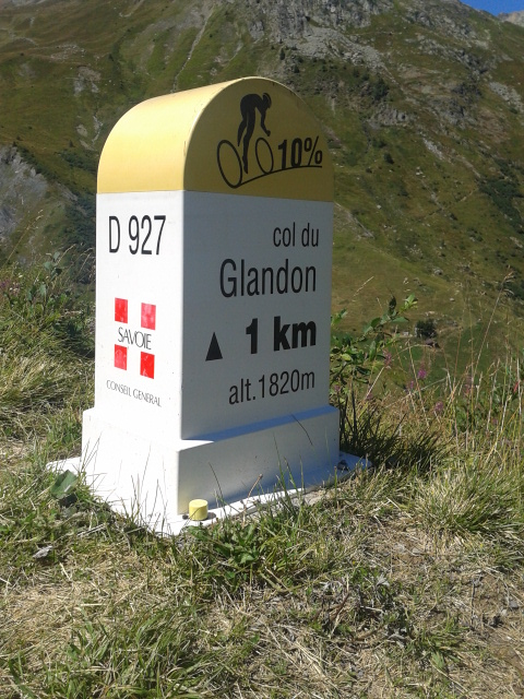 2015 Mountain pass cycling milestone - Glandon from La Chambre